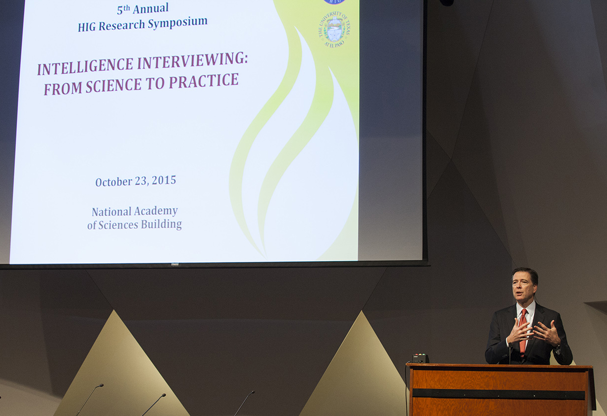 Director James Comey addresses the audience at the High-Value Detainee Interrogation Group’s fifth annual research symposium, held October 23, 2015 in Washington, D.C.